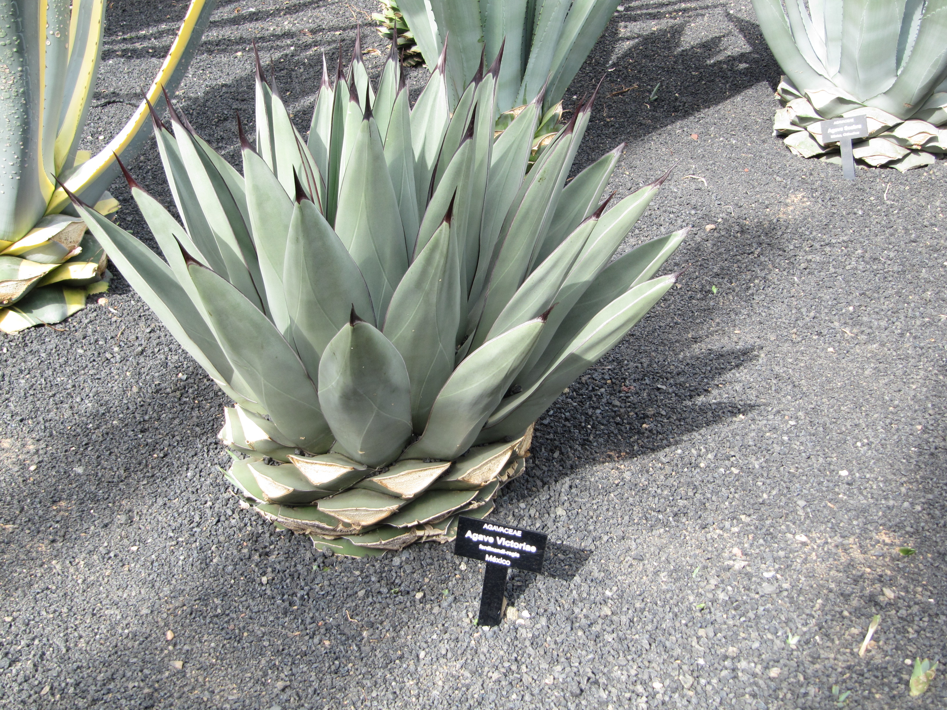 Misidentified Agave, there is no Agave victoriae and this is NOT Agave victoriae-reginae